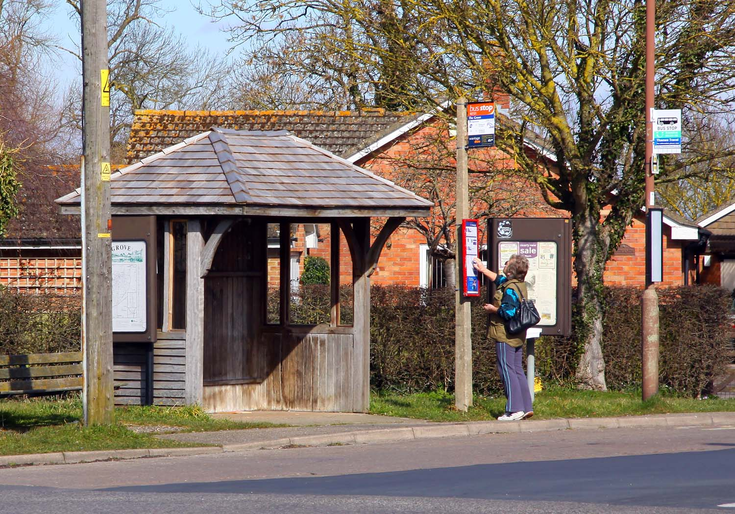 Bus shelter by The Green, Grove, Oxfordshire (formerly Berkshire)